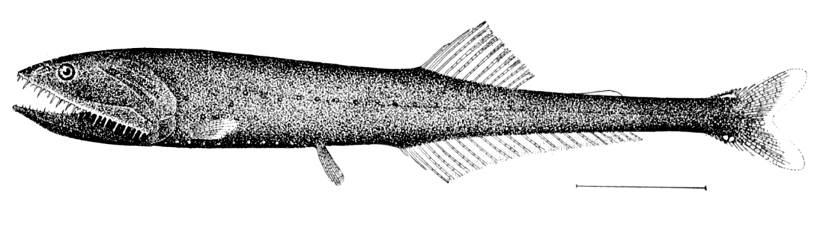 Sigmops bathyphilus syn. Gonostoma bathyphilum.